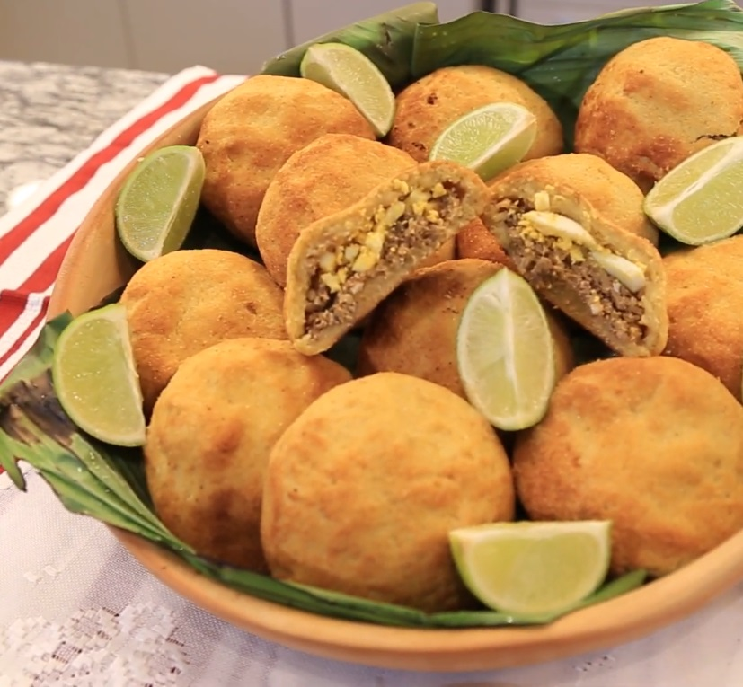 Chipa so'o is a paraguayan food made of corn flour, meat, eggs, lemon and pork fat